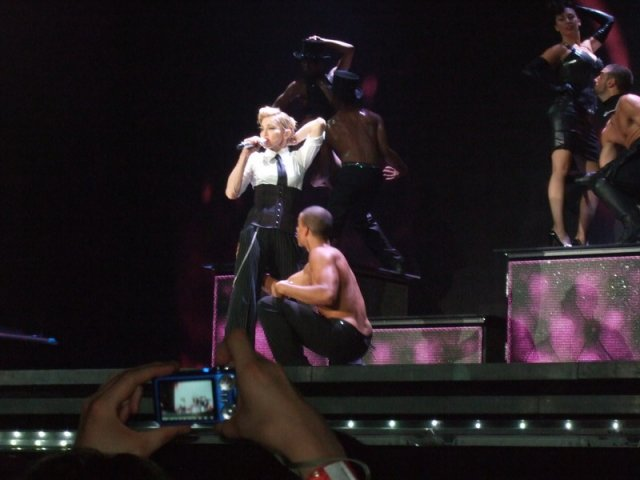 Madonna concert in Barcelona